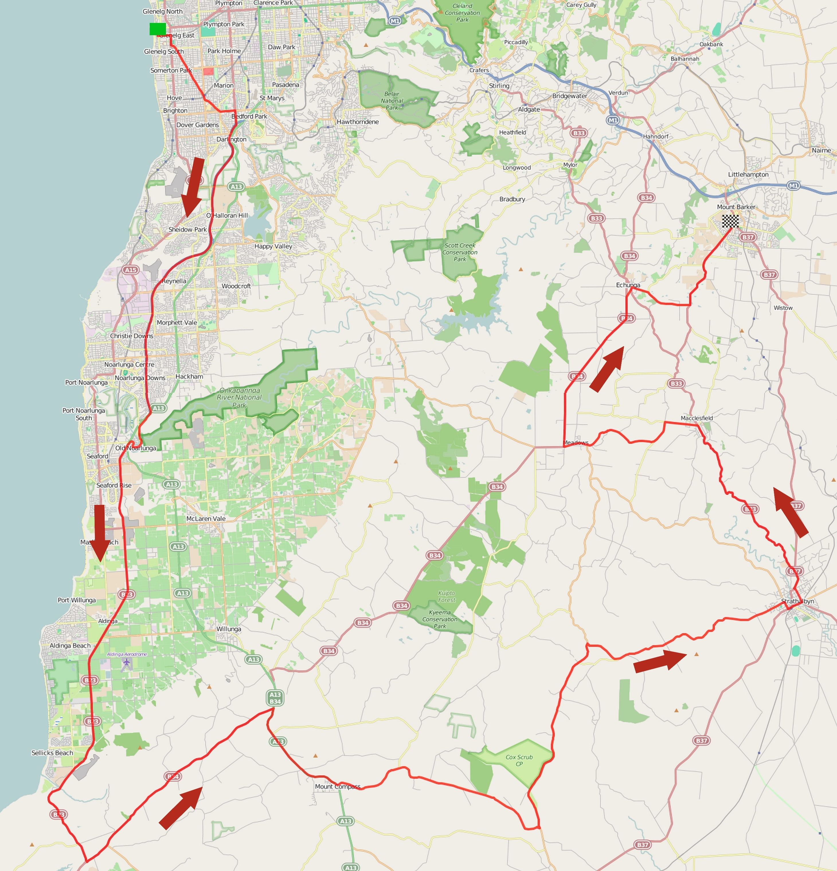 Parcours de la quatrième étape du Tour Down Under 2015. This map may be incomplete, and may contain errors. Don't rely solely on it for navigation.